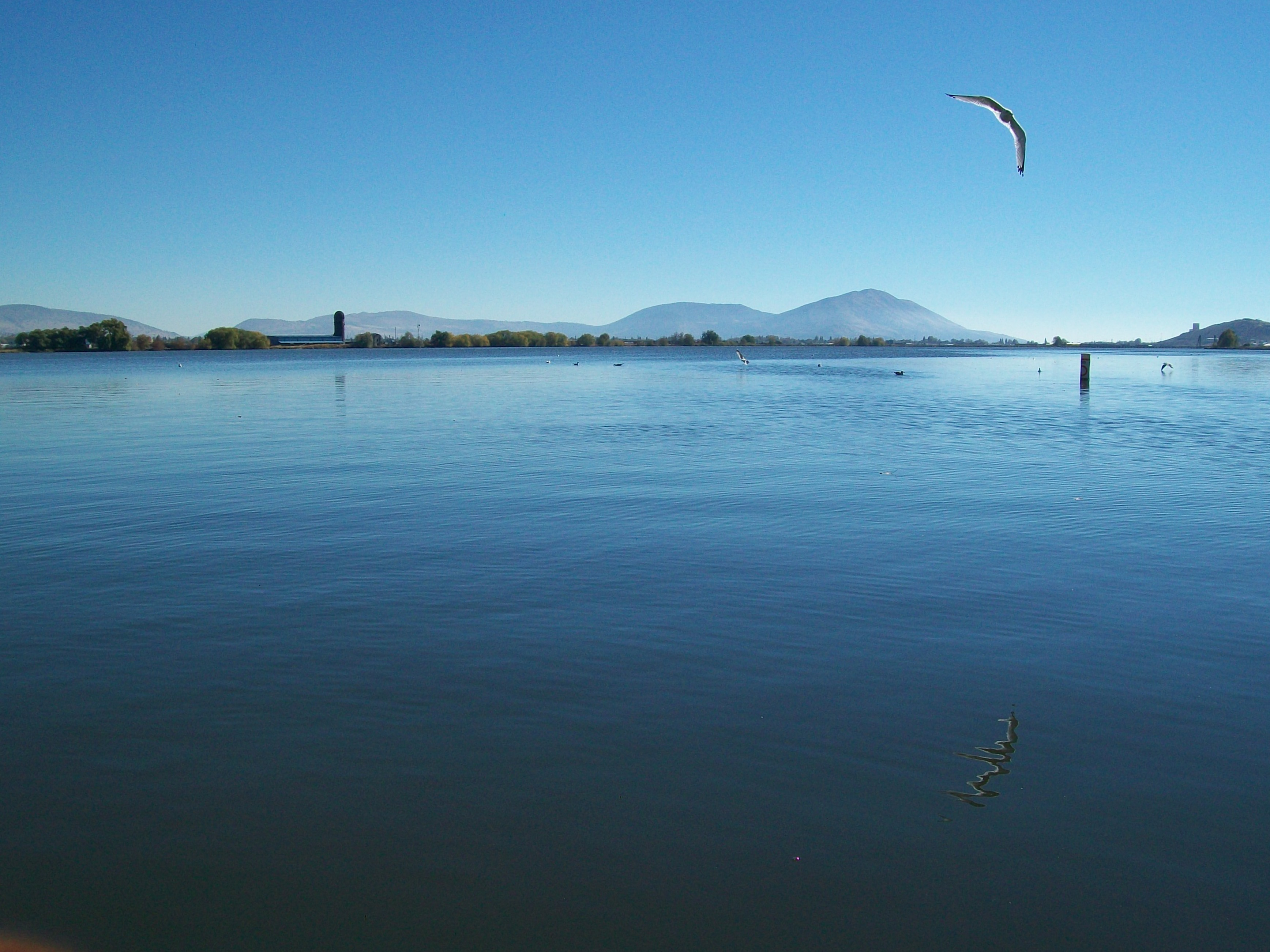 Seagull flying over Lake Ewauna, Oregon.